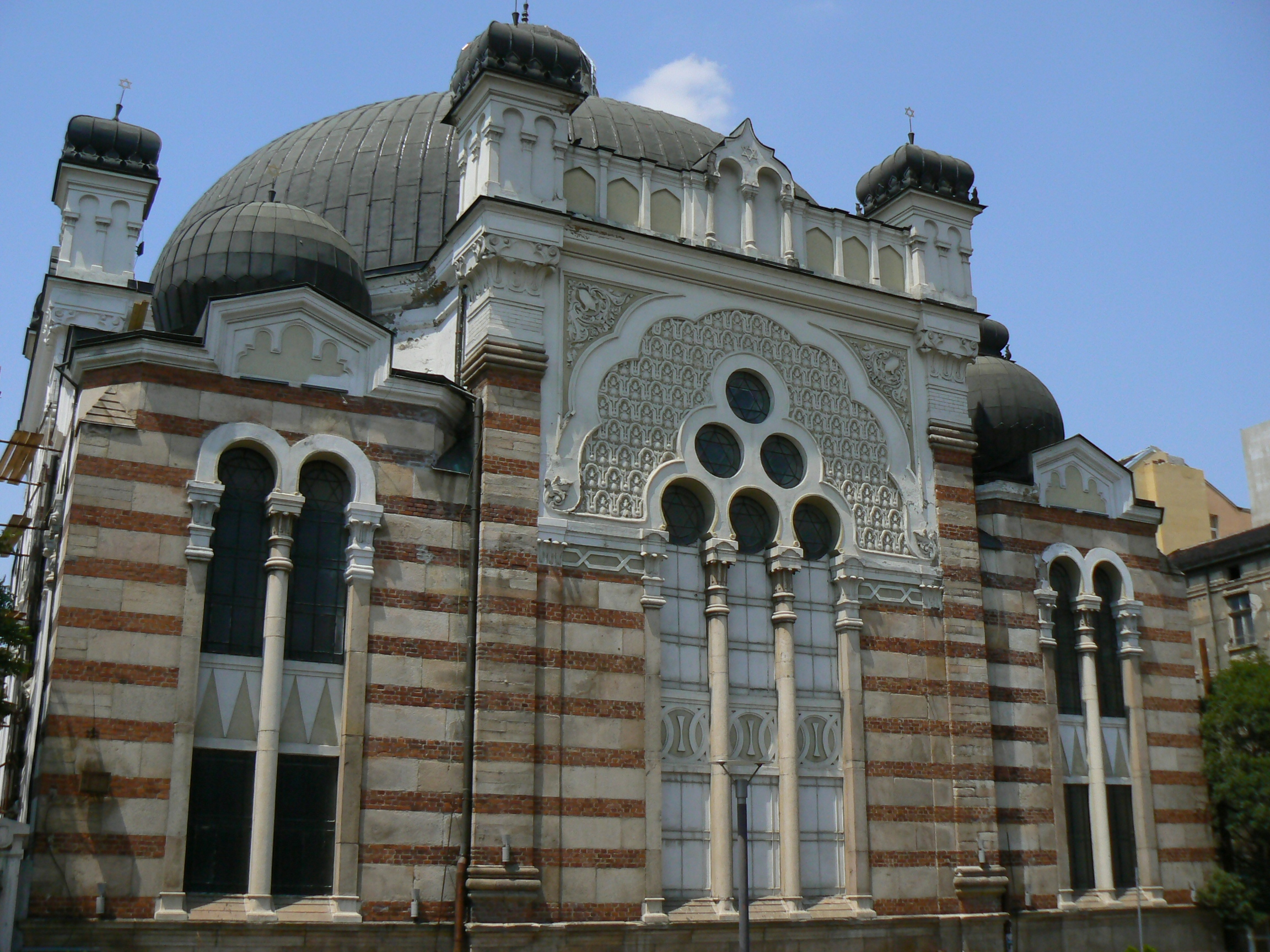 Sofia Synagogue, as seen from shopping centre Halite. Sofia, Bulgaria